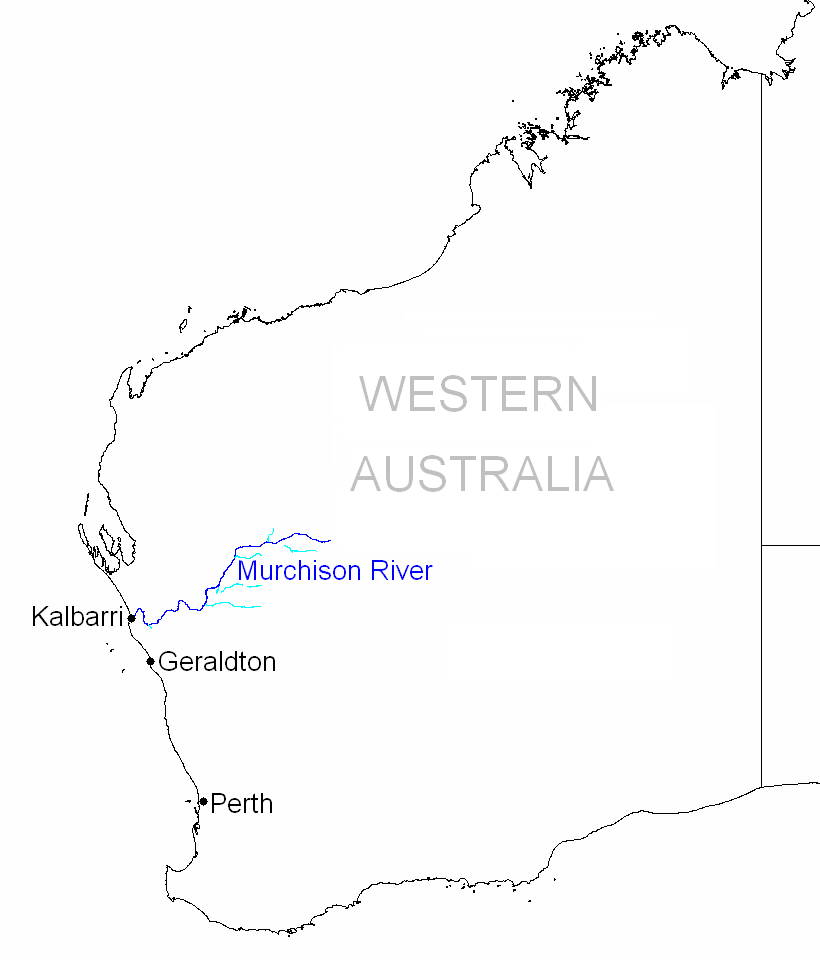 This image is a map showing the location of the Murchison River, Western Australia. It was created by the uploader.